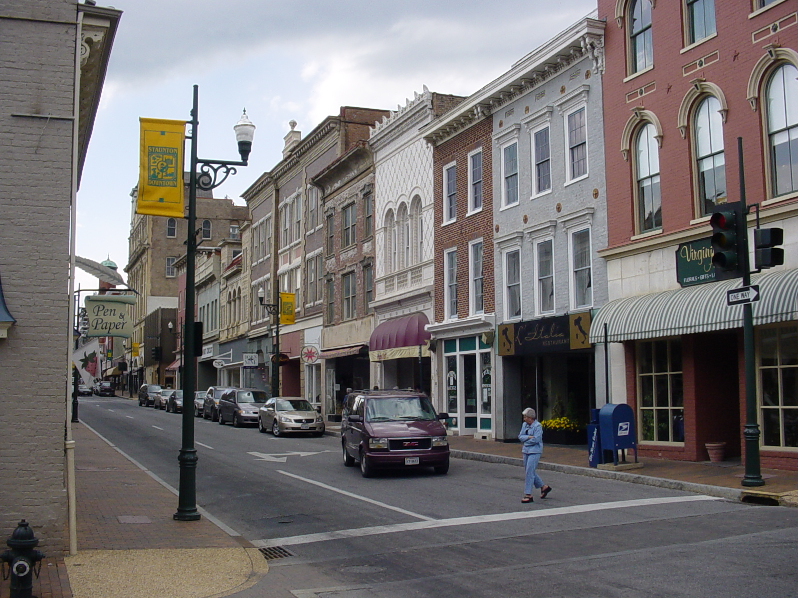 Downtown Staunton, VA, USA